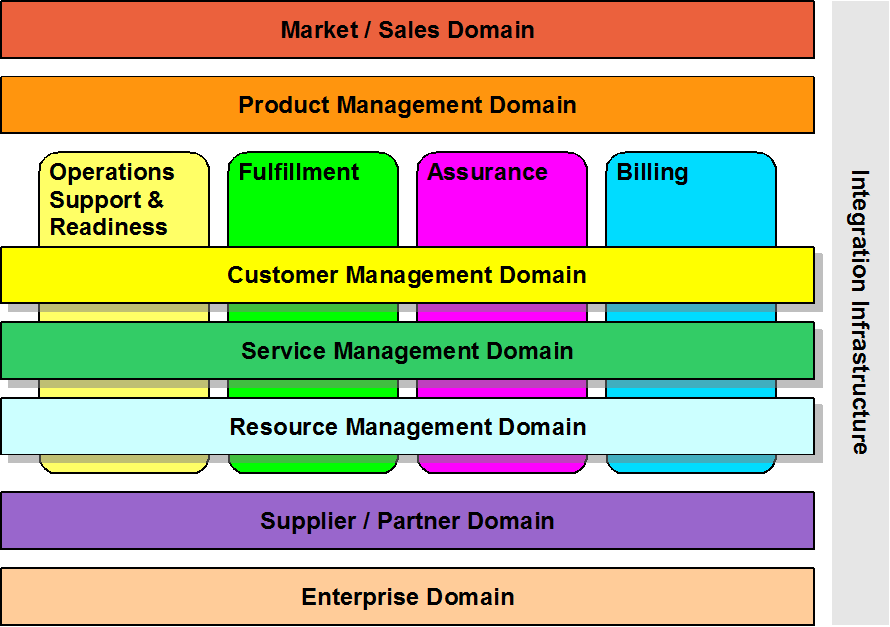 High level structure of the NGOSS TAM